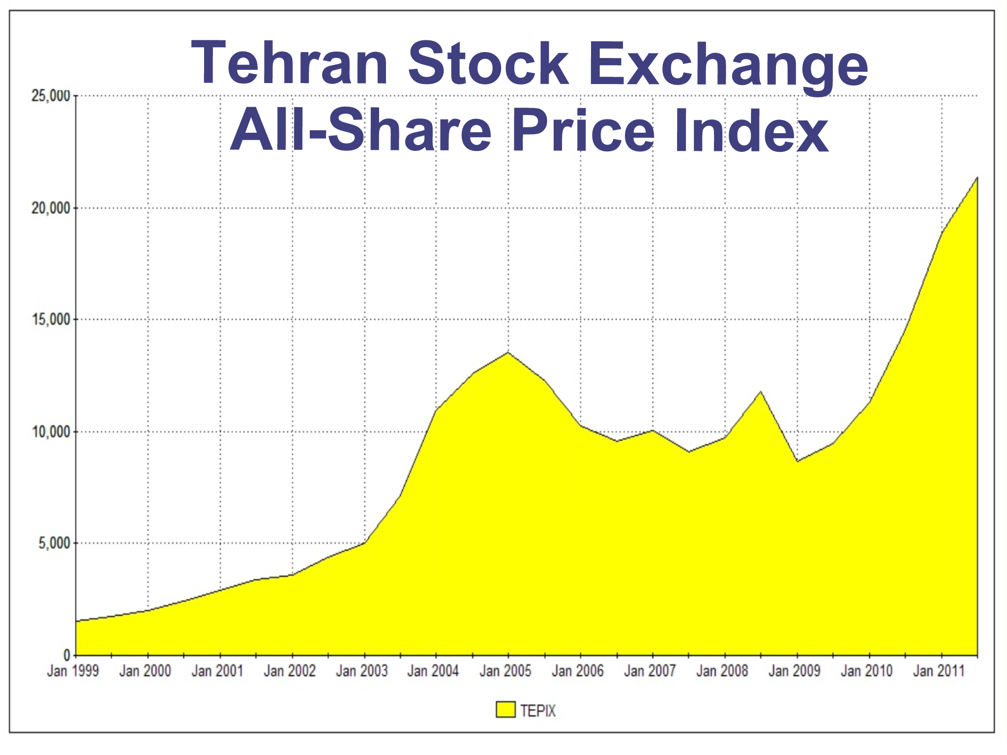 TEPIX All Share Price Index, Tehran Stock Exchange (January 1999-January 2011)